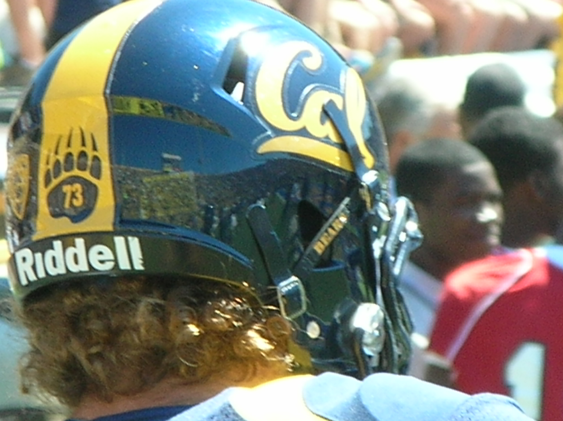 A Cal football helmet.